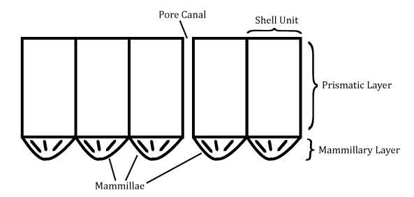 A diagram showing the idealized structure of the cross-section of a two-layered dinosaur eggshell.